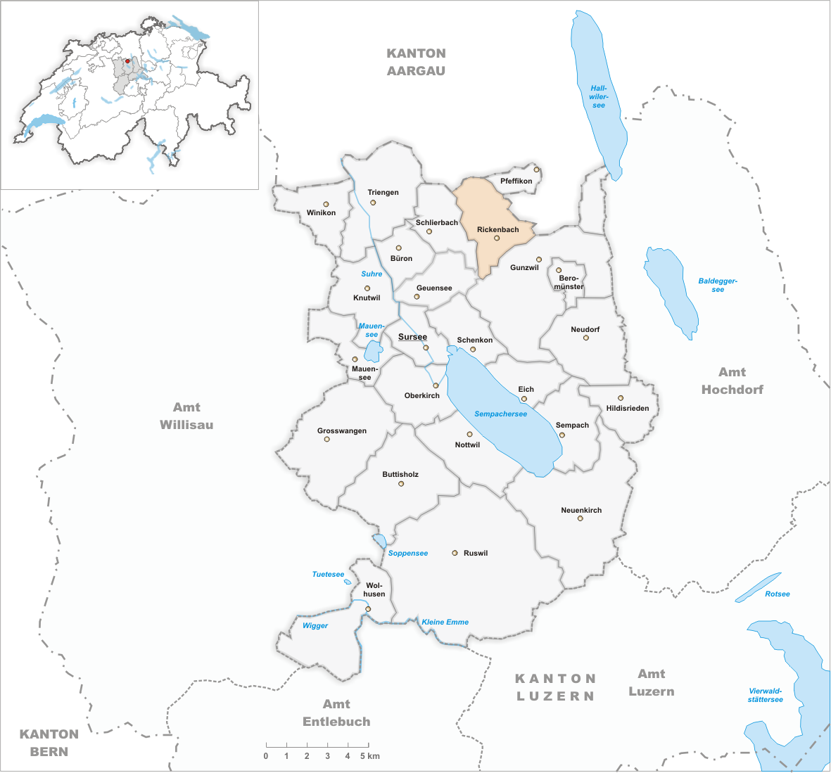 Municipality Rickenbach